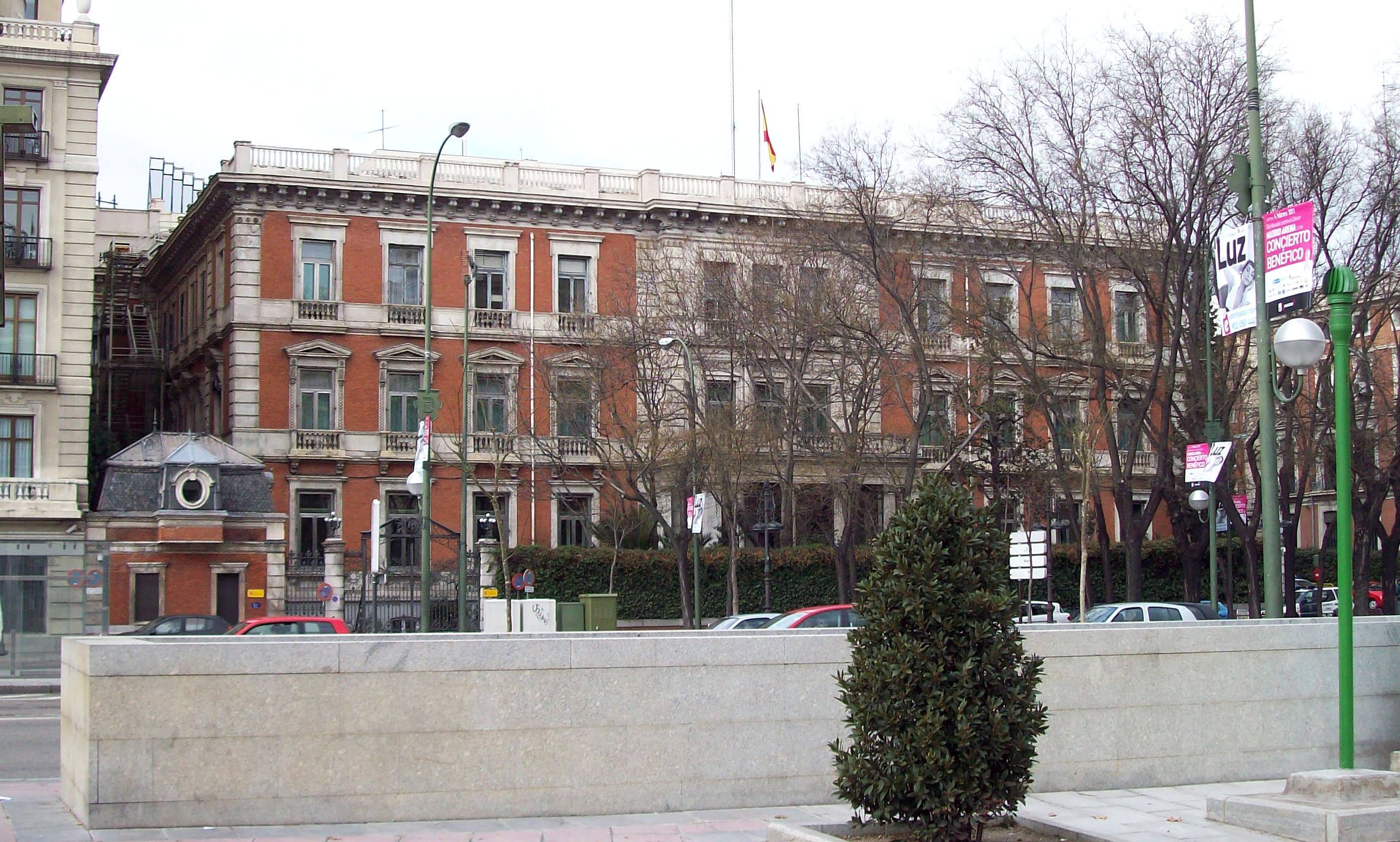 Façade of Palacio de Villamejor at 3 Paseo de la Castellana (an avenue) in Madrid (Spain). Projected in 1887 by José Purkiss Zubiría and Pascual Herráiz Siloy and built from 1887 to 1890. Current headquarters of the Spanish Ministry of the Treasury and Public Administration.